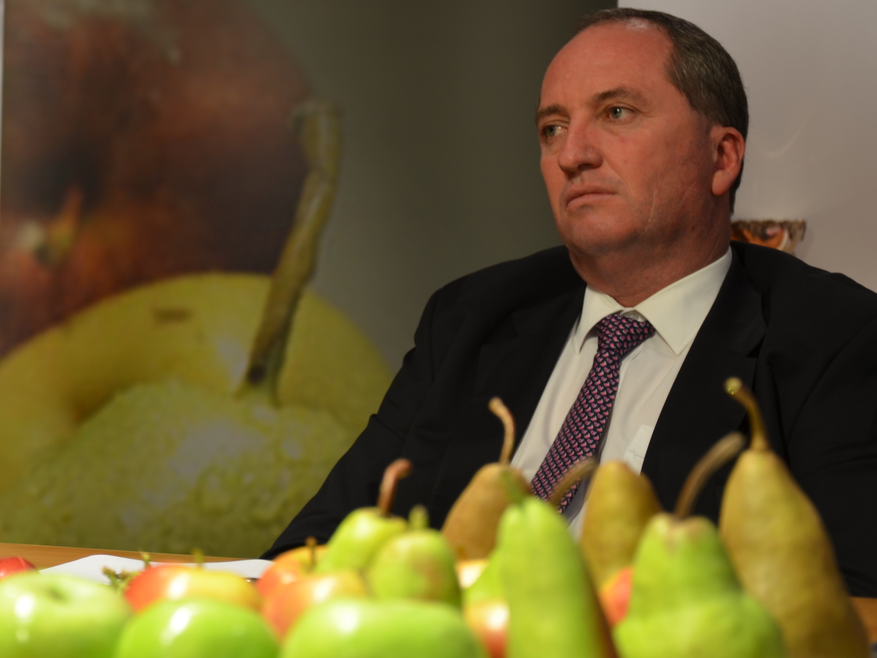 Barnaby Joyce visiting Apple and Pear Australia Ltd in 2014